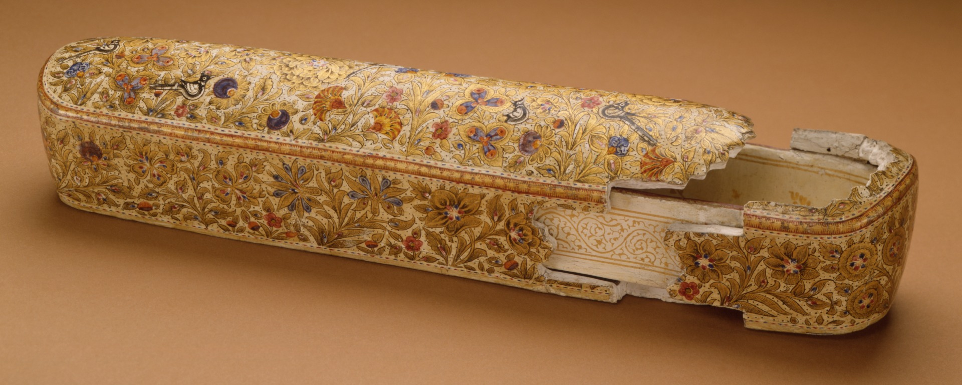 India, Jammu and Kashmir, Srinagar, circa 1800-1850 Furnishings; Accessories Papier-maché with paint and gold leaf 2 5/8 x 11 1/2 x 2 1/2 in. (6.67 x 29.21 x 6.35 cm) Gift of Terence McInerney (M.89.160a-b) South and Southeast Asian Art